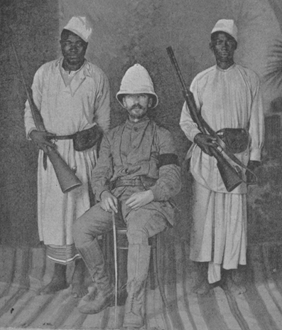 Dr Jospeh Moloney, medical officer to the Stairs Expedition, with two of the expedition's nyamparas (chiefs or supervisors), Hamadi bin Malum (left) and Massoudi, in Zanzibar, 1892.